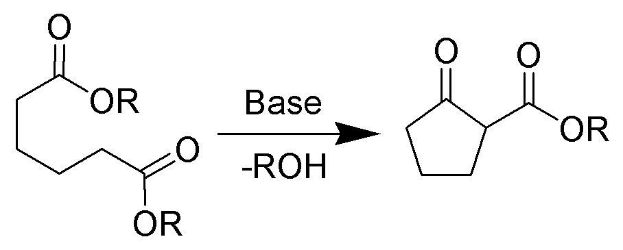 Description: Reaction scheme of the Dieckmann condensation. Author, date of creation: selfmade by ~K, 28 January 2006. Source: - Copyright: Public domain. (PD) Comments: high-resolution b/w PNG; ChemDraw / The GIMP.